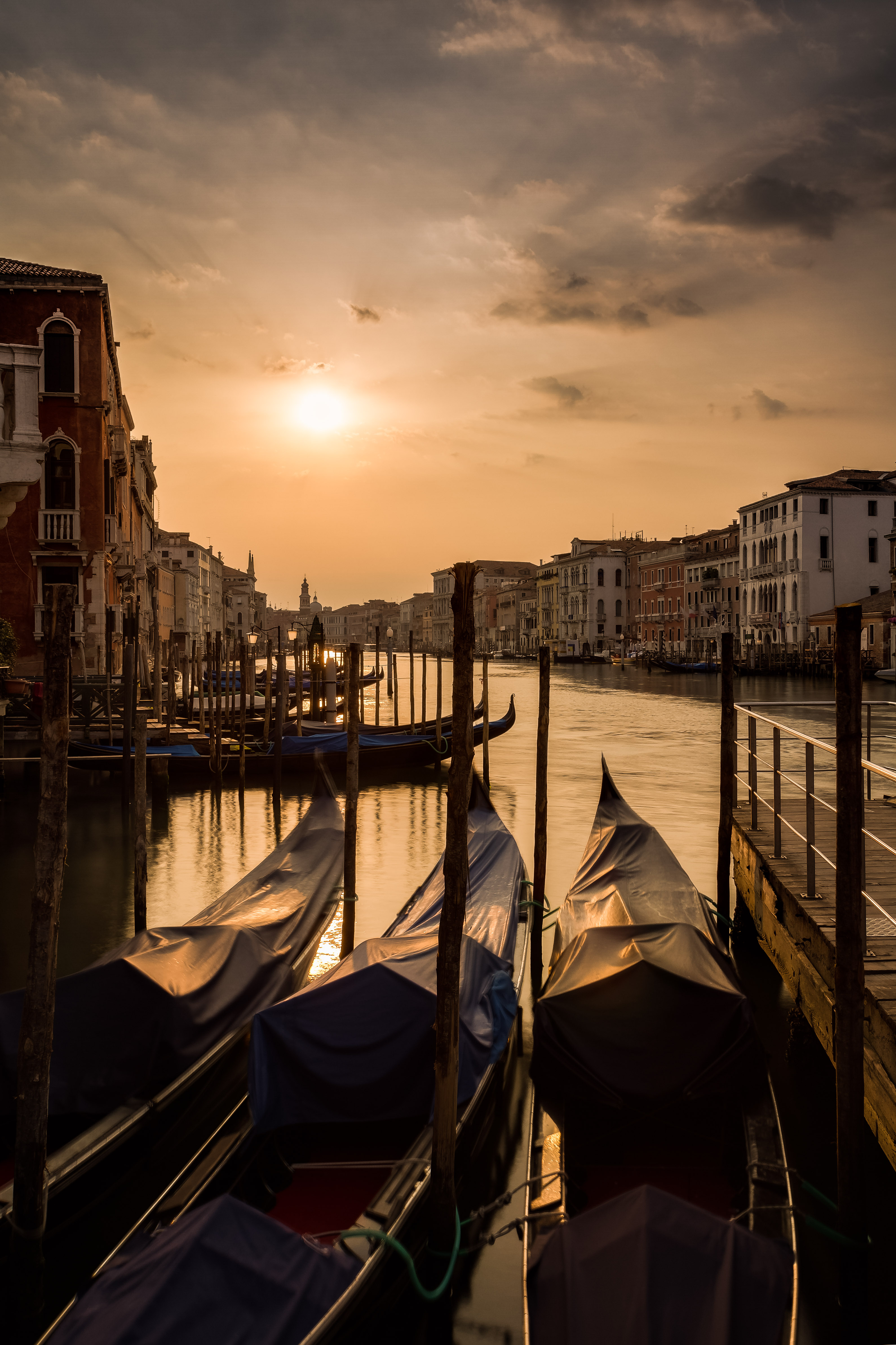 Sunrise over Gondolas parked in the Grand Canal, Venice, Italy